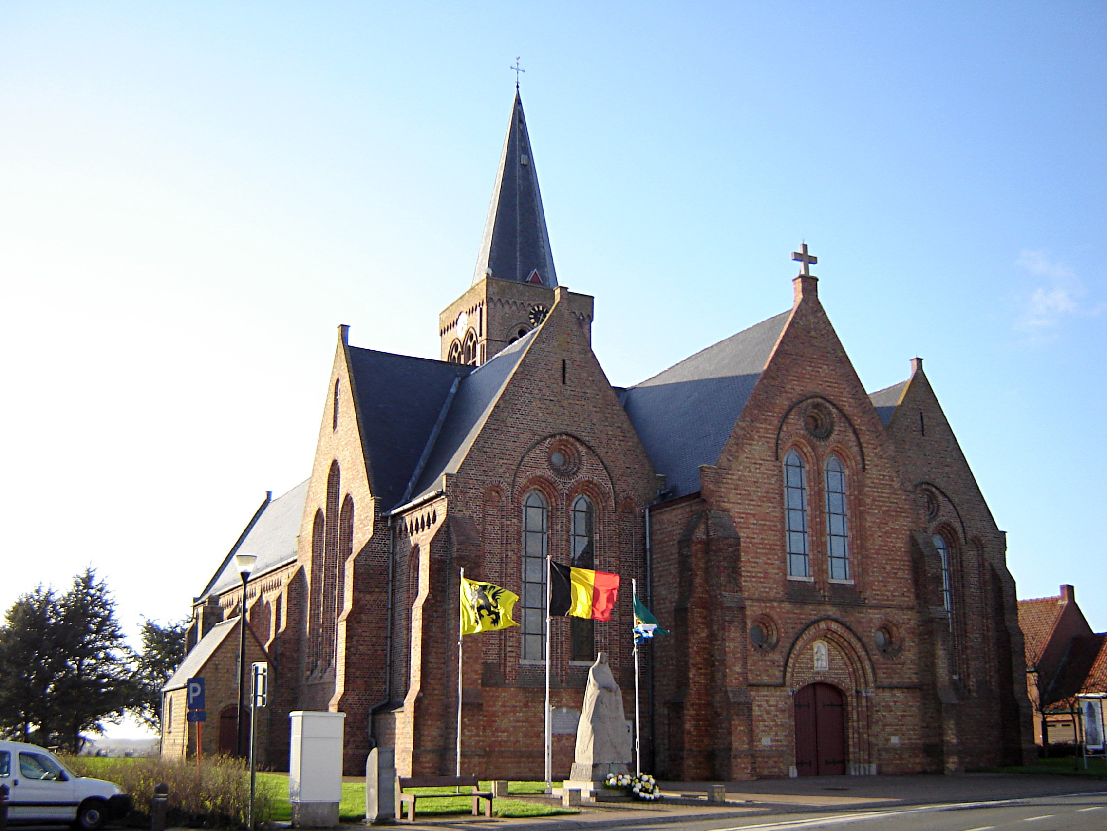 Church of Saint Lawrence in Klerken. Klerken, Houthulst, West Flanders, Belgium